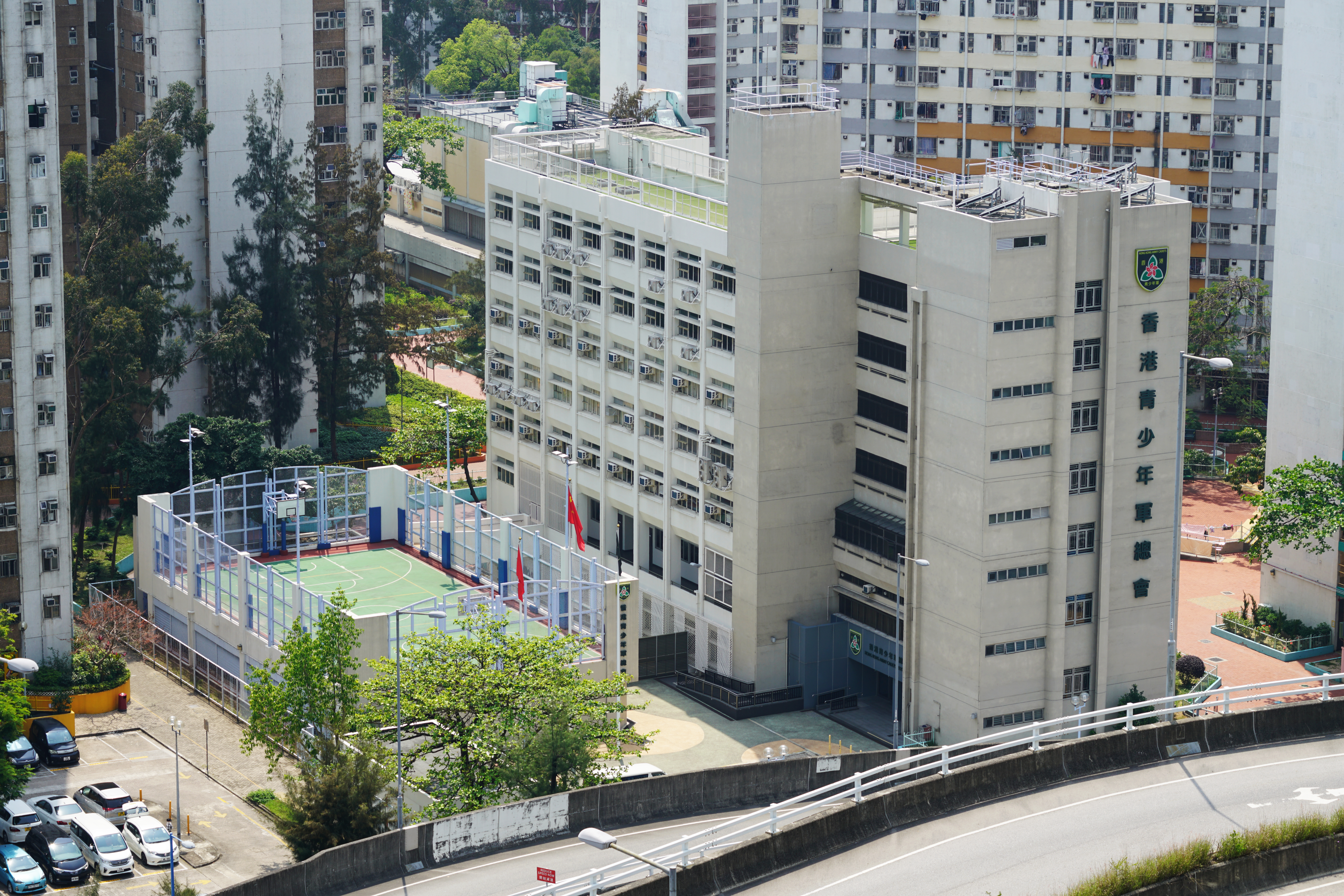 Hong Kong Army Cadets Association.